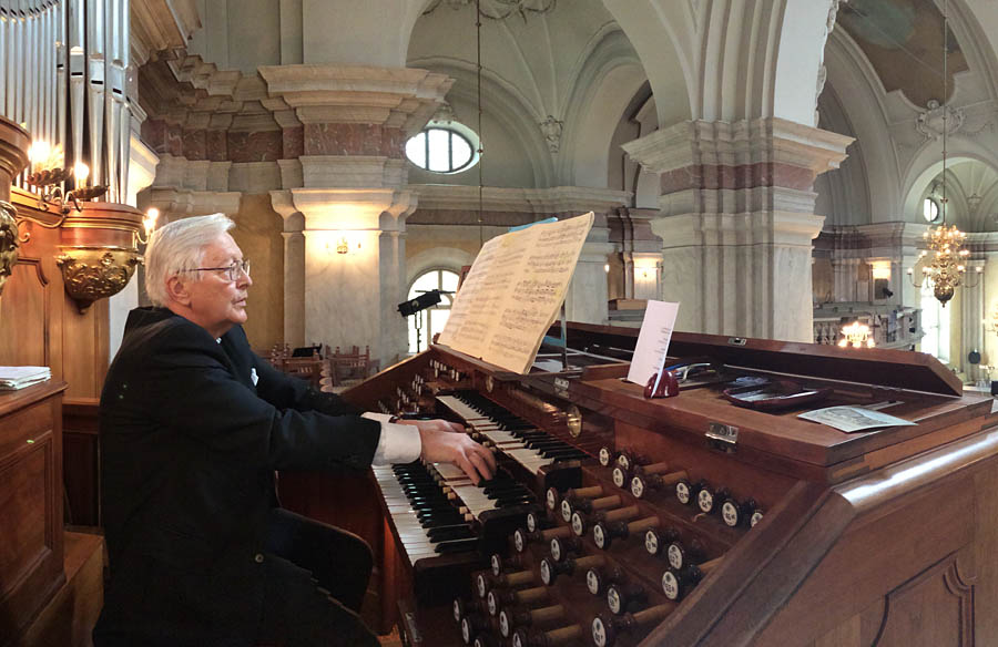 Erik Lundkvist plays in Gustav Vasa kyrka